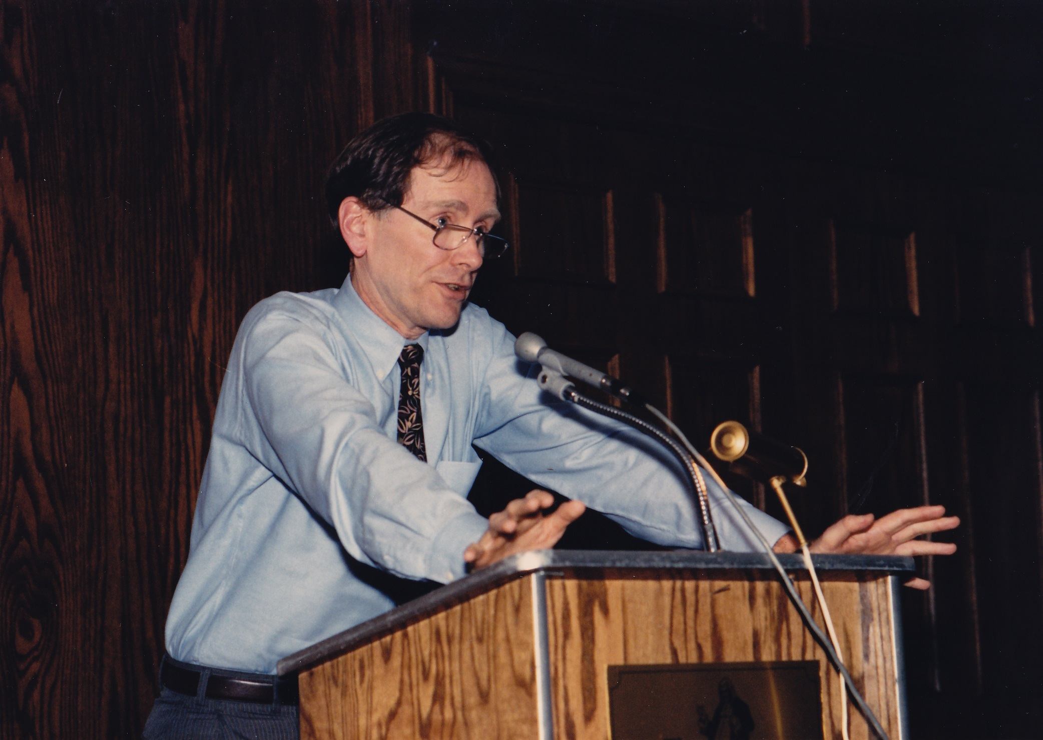 Charles Culver at the Elizabeth DeCamp McInerny Professorship in the Dartmouth Medical School, 1989